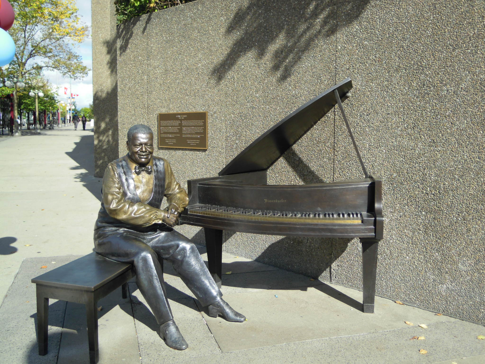 Statue of pianist Oscar Peterson on Elgin Street at the National Arts Centre, Ottawa, Canada.